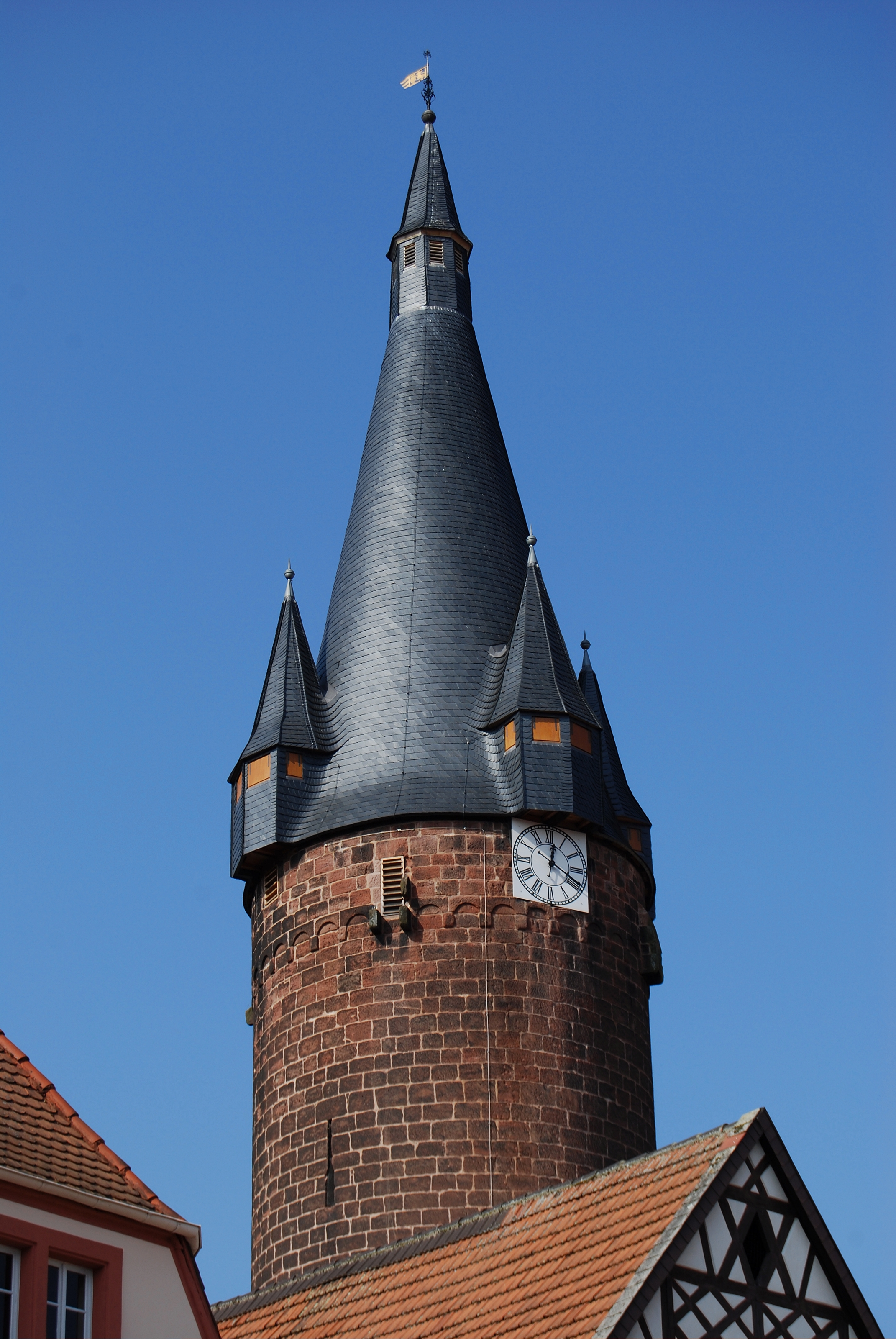 Alter Turm (~ old tower), Ottweiler, Saarland.